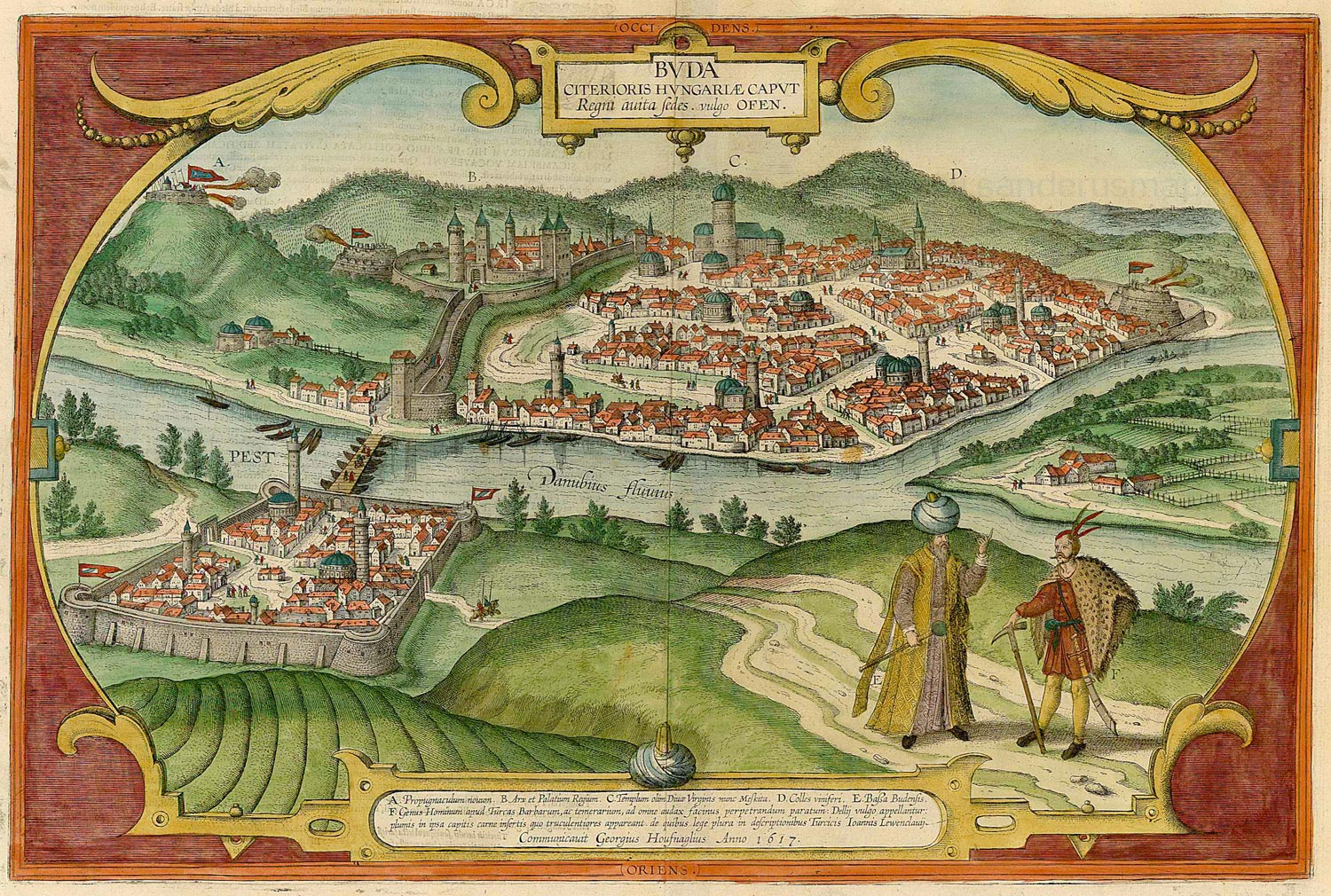 Key to six locations.